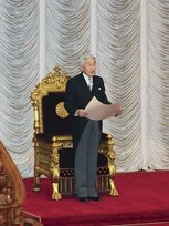 Emperor Akihito convoked the Diet at the National Diet Building in Chiyoda Ward, Tōkyō Metropolis on January, 2011.